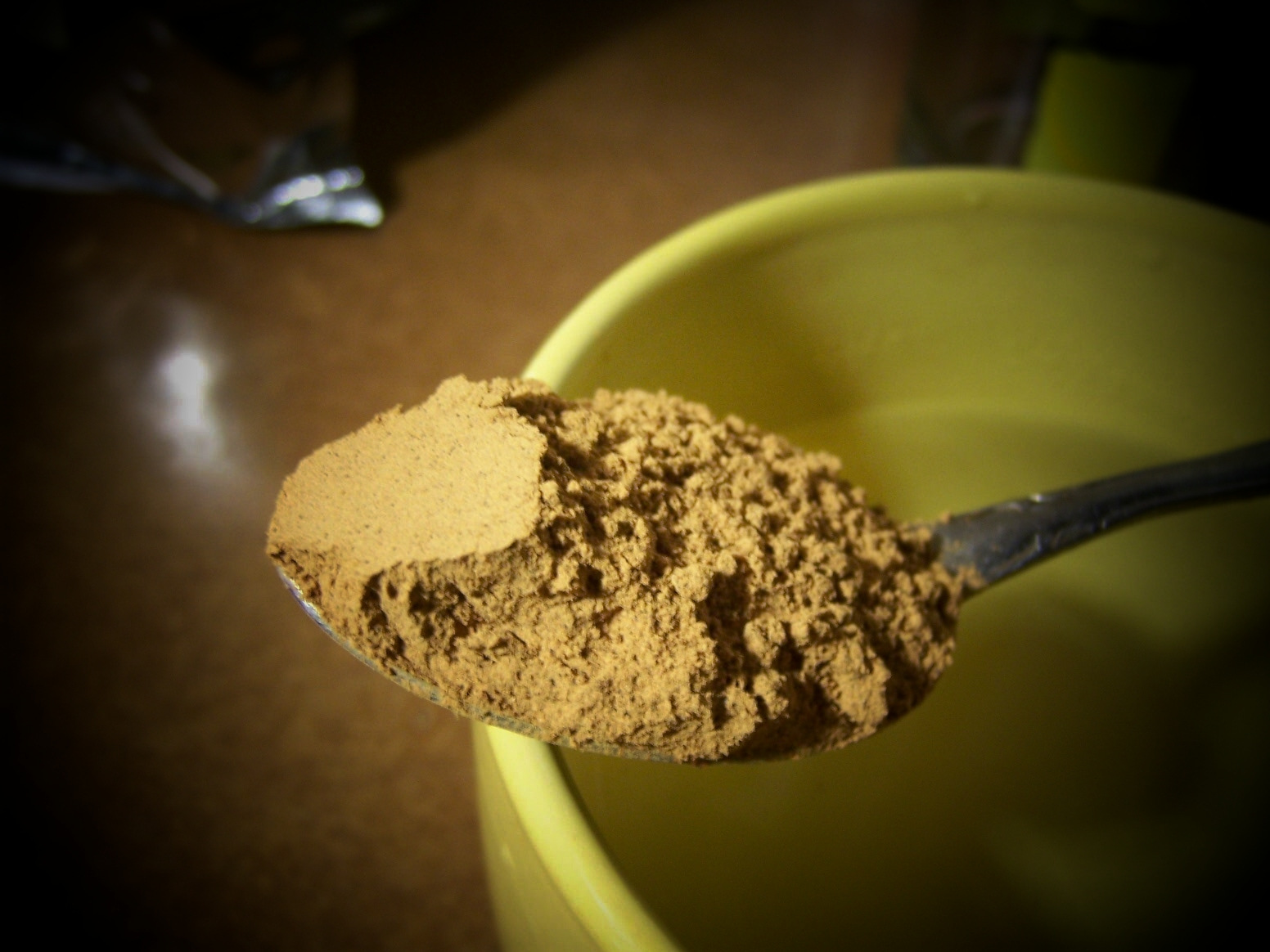 powder of guarana seeds